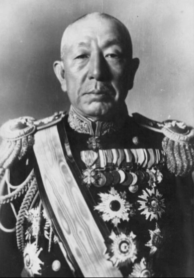 Mineichi Koga (1885–1944)